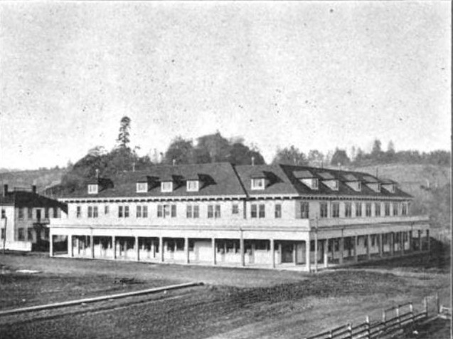 May 5, 1903 Photograph of the Willits Hotel in Willits, California, which was destroyed April 18, 1906 in the Great San Francisco Earthquake, killing at least one person.